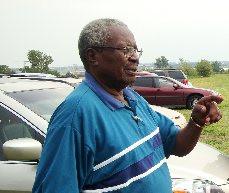 Professor Filemon Indire